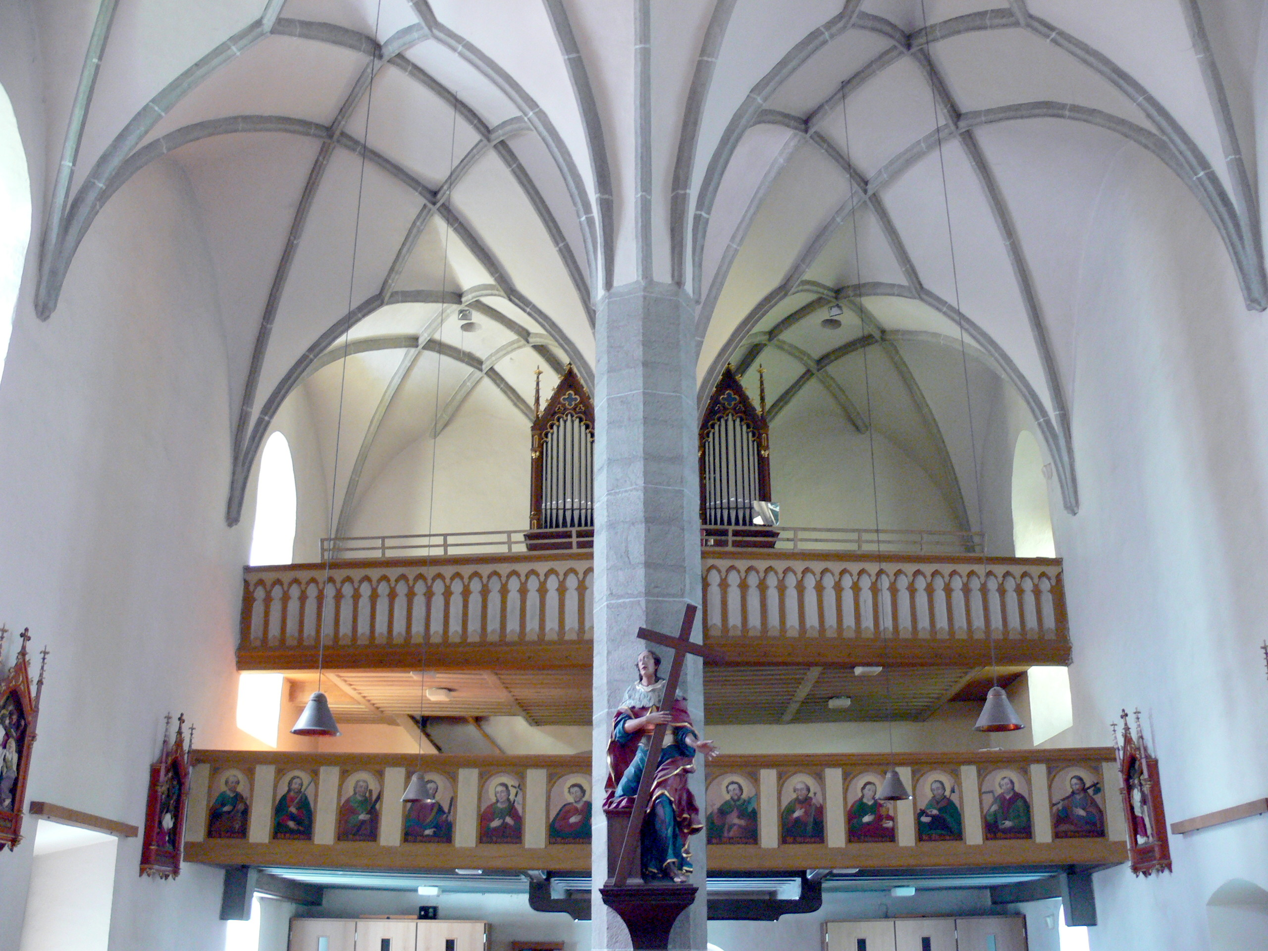 Pötting - parish church of the Holy Cross: Nave and organ.